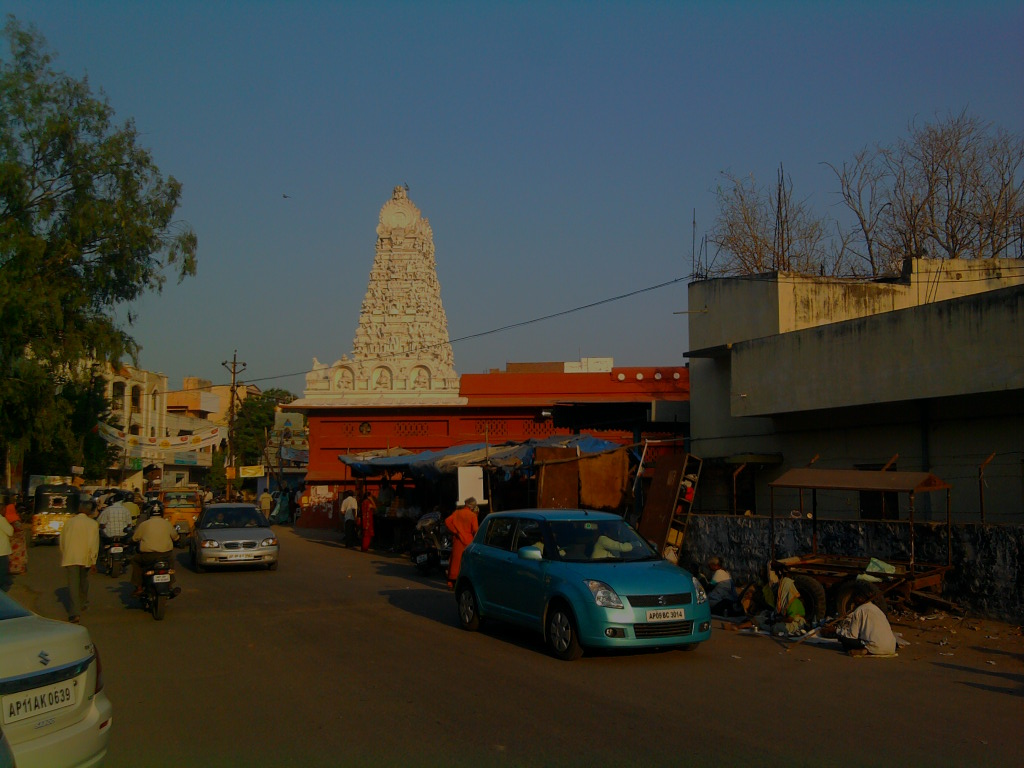 Tadbund Hanuman Temple Picture of Tadbund Hanuman Temple.